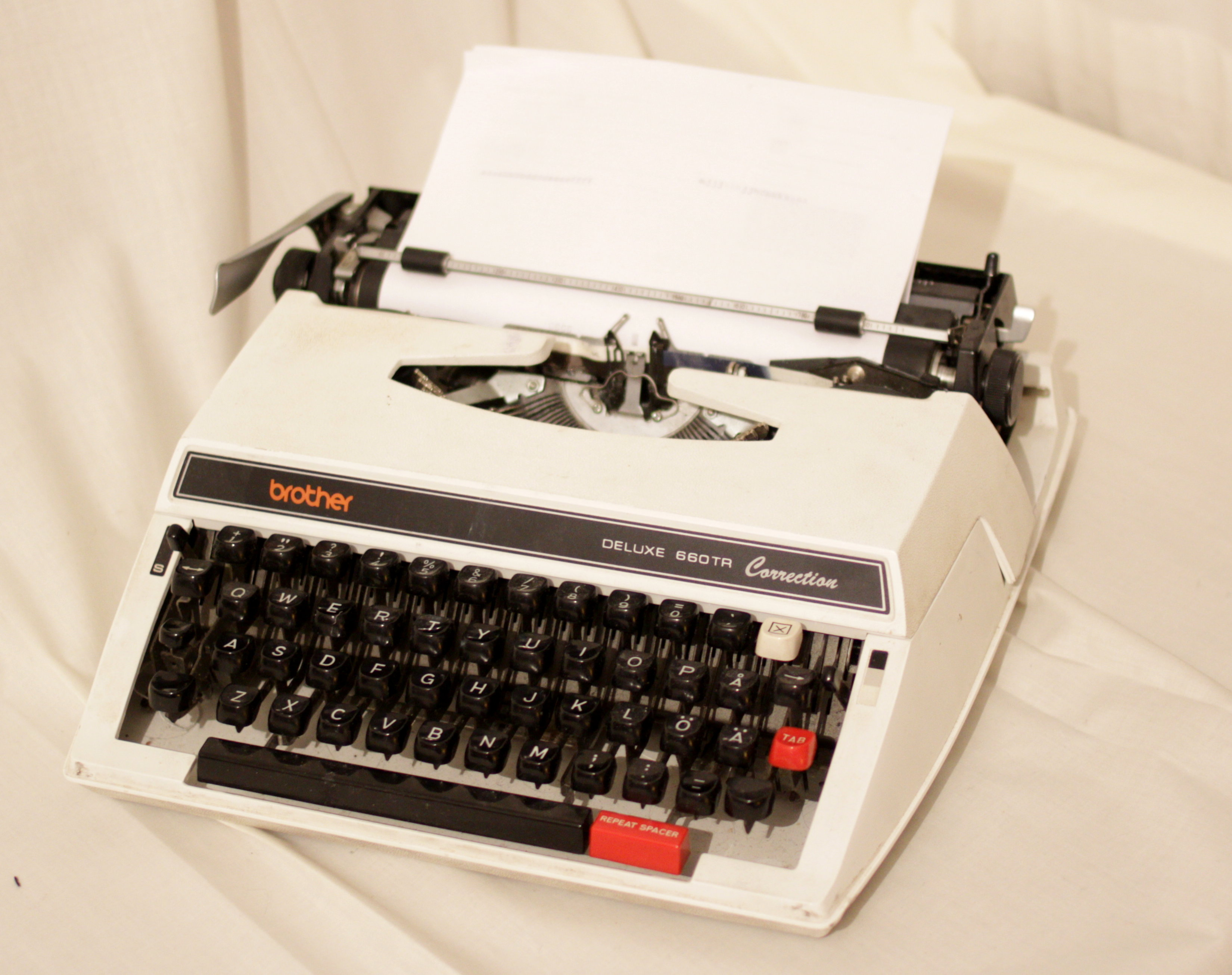 Brother Industries Deluxe 660TR Correction typewriter.